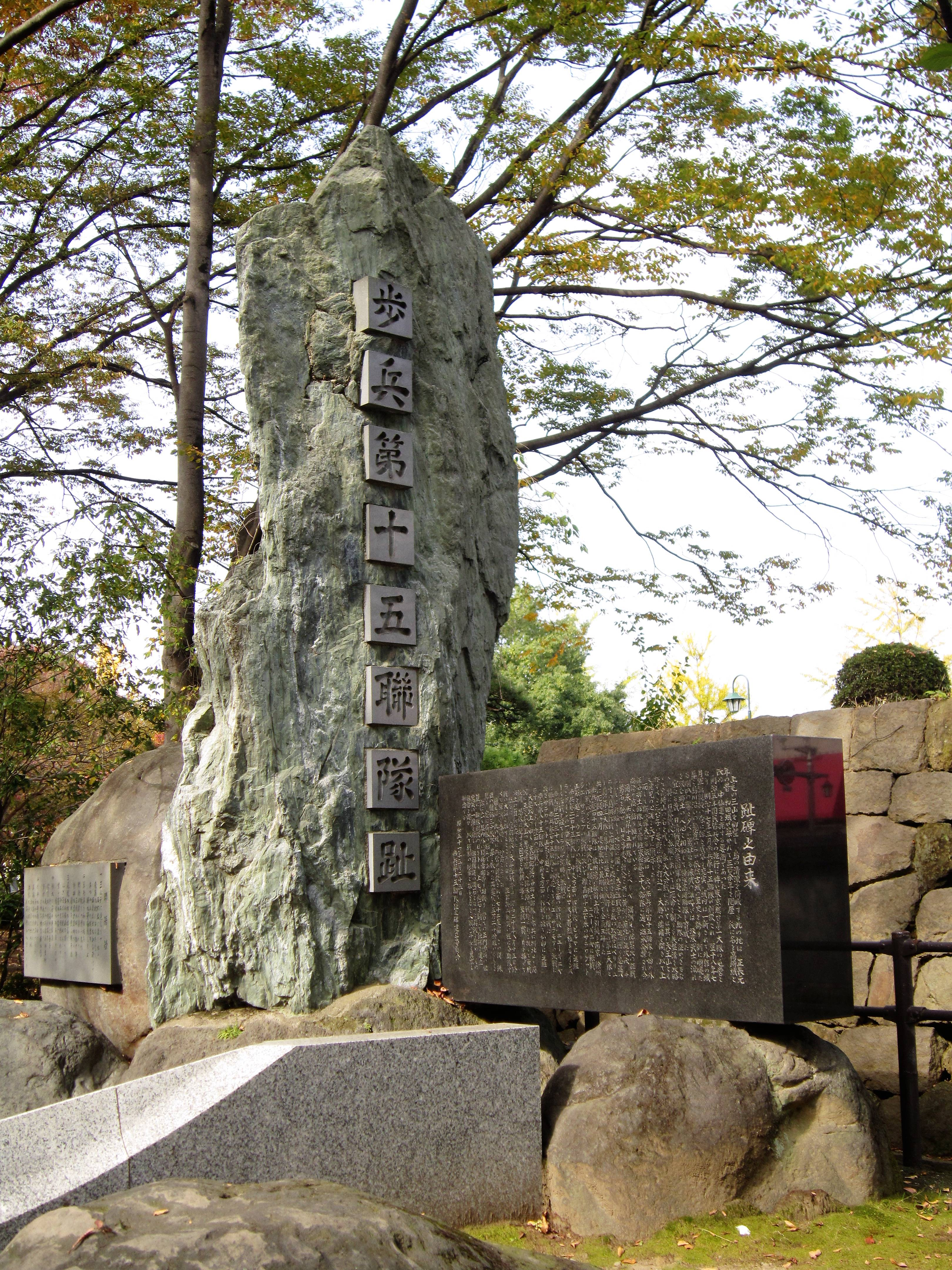 Imperial Japanese Army 15th Infantry Regiment monument (Takasaki, Gunma).